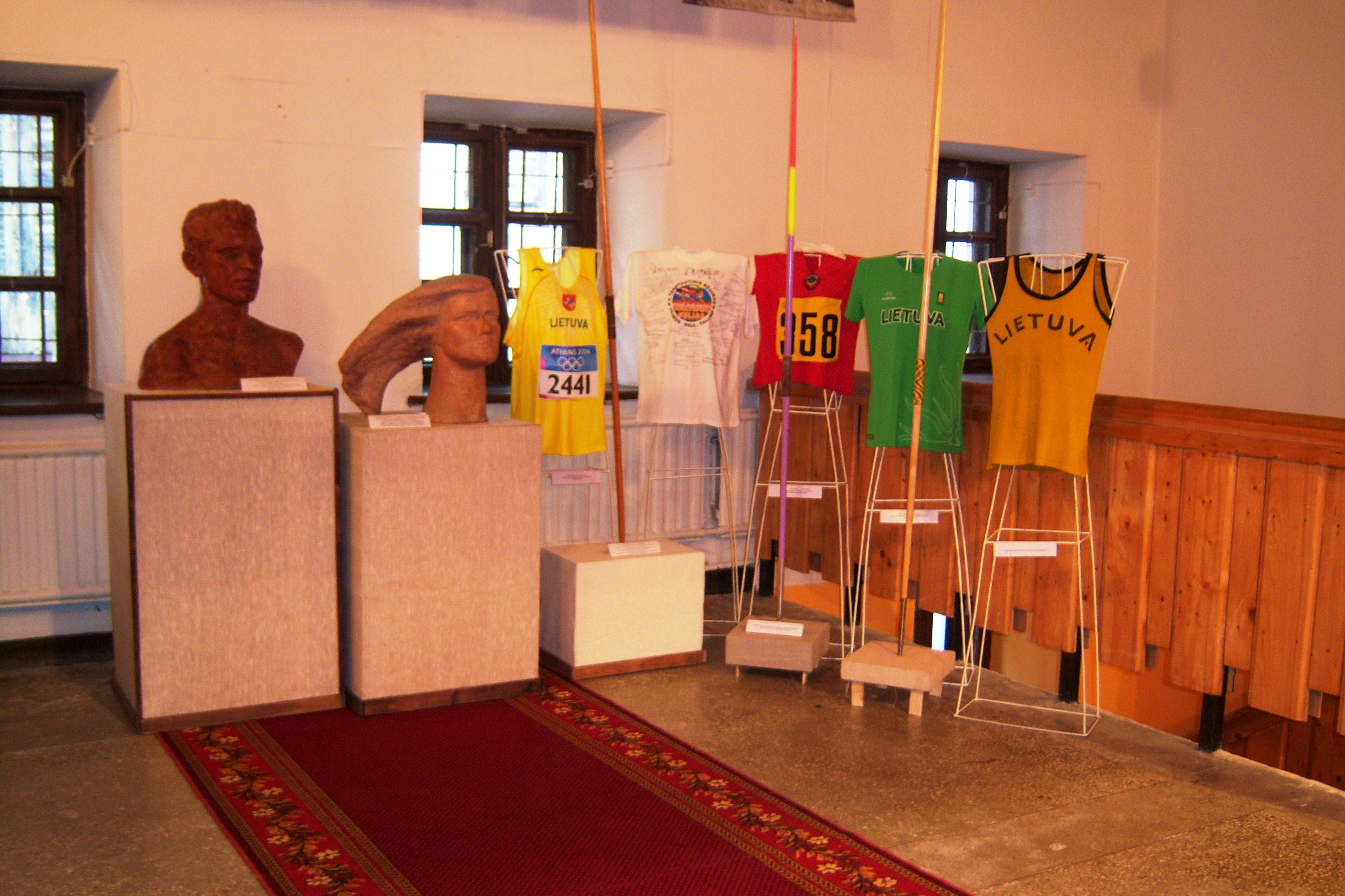 Sports Museum, exhibits, Kaunas, Lithuania